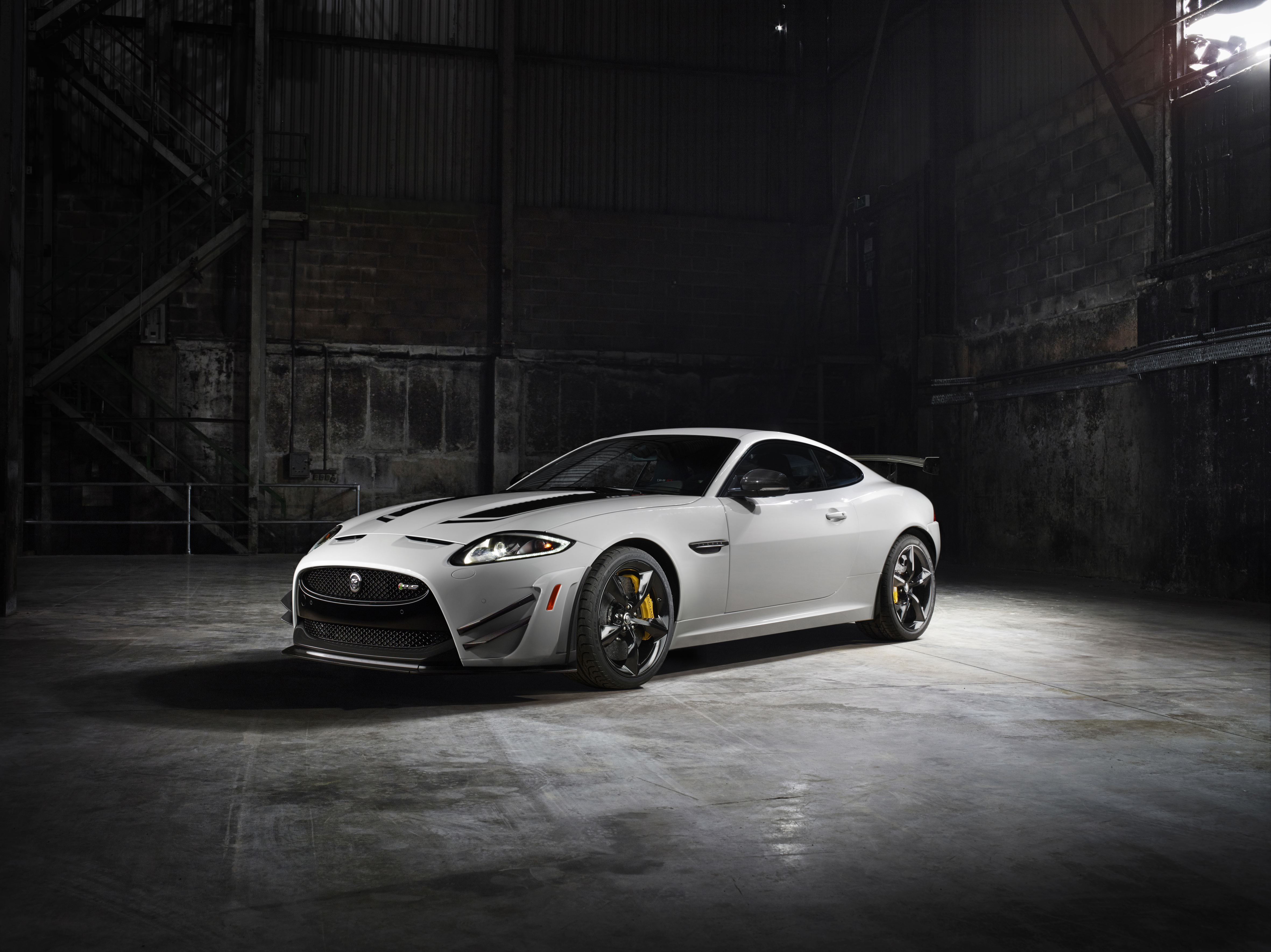 The XKR-S GT is the most extreme iteration of the Jaguar R Brand's performance focus. Utilising race-car derived technology, all-aluminium construction and an uncompromised approach to aerodynamic efficiency, the result is a car as capable on the track as it is exhilarating on the road.